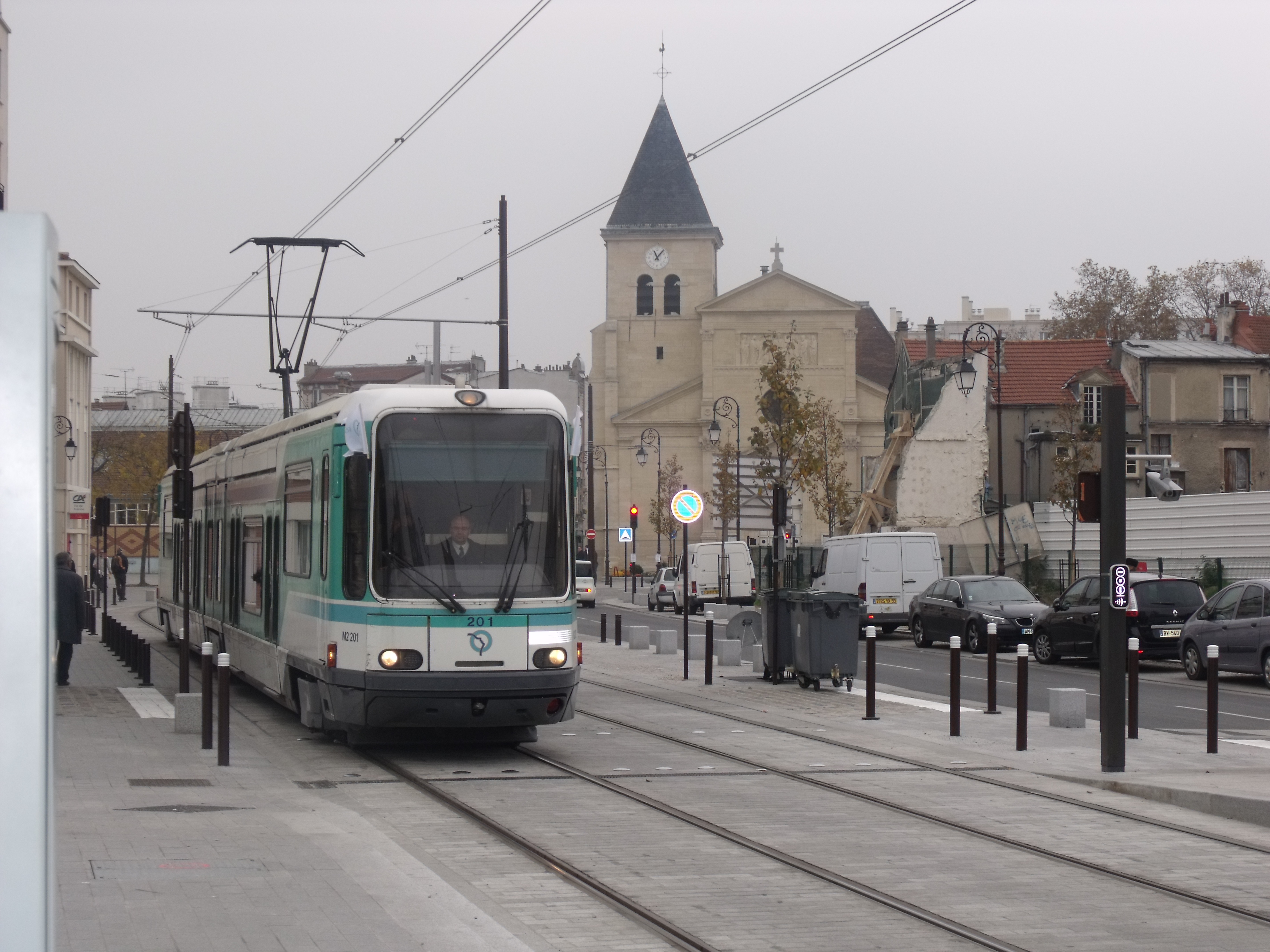 Inauguration of the T1 line extended in Gennevilliers.